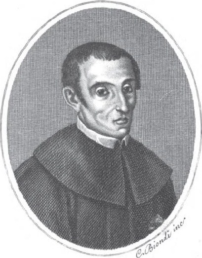 Antonino Barcellona, Sicilian theologian